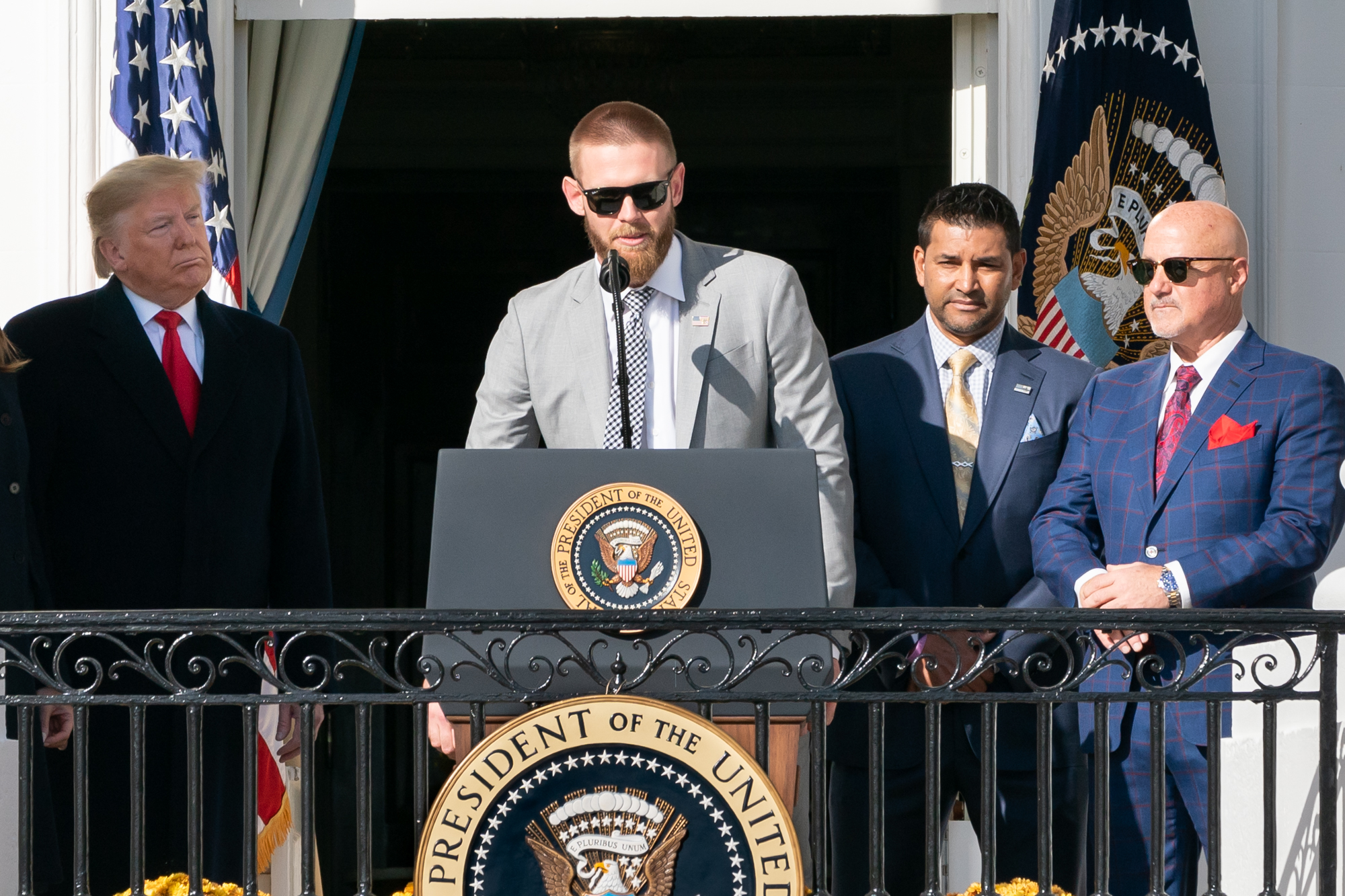 President Donald J. Trump listens as pitcher Stephen Strasburg of the 2019 World Series Champion Washington Nationals addresses his remarks Monday, Nov. 4, 2019, on the South Portico balcony of the White House. (Official White House Photo by Andrea Hanks)